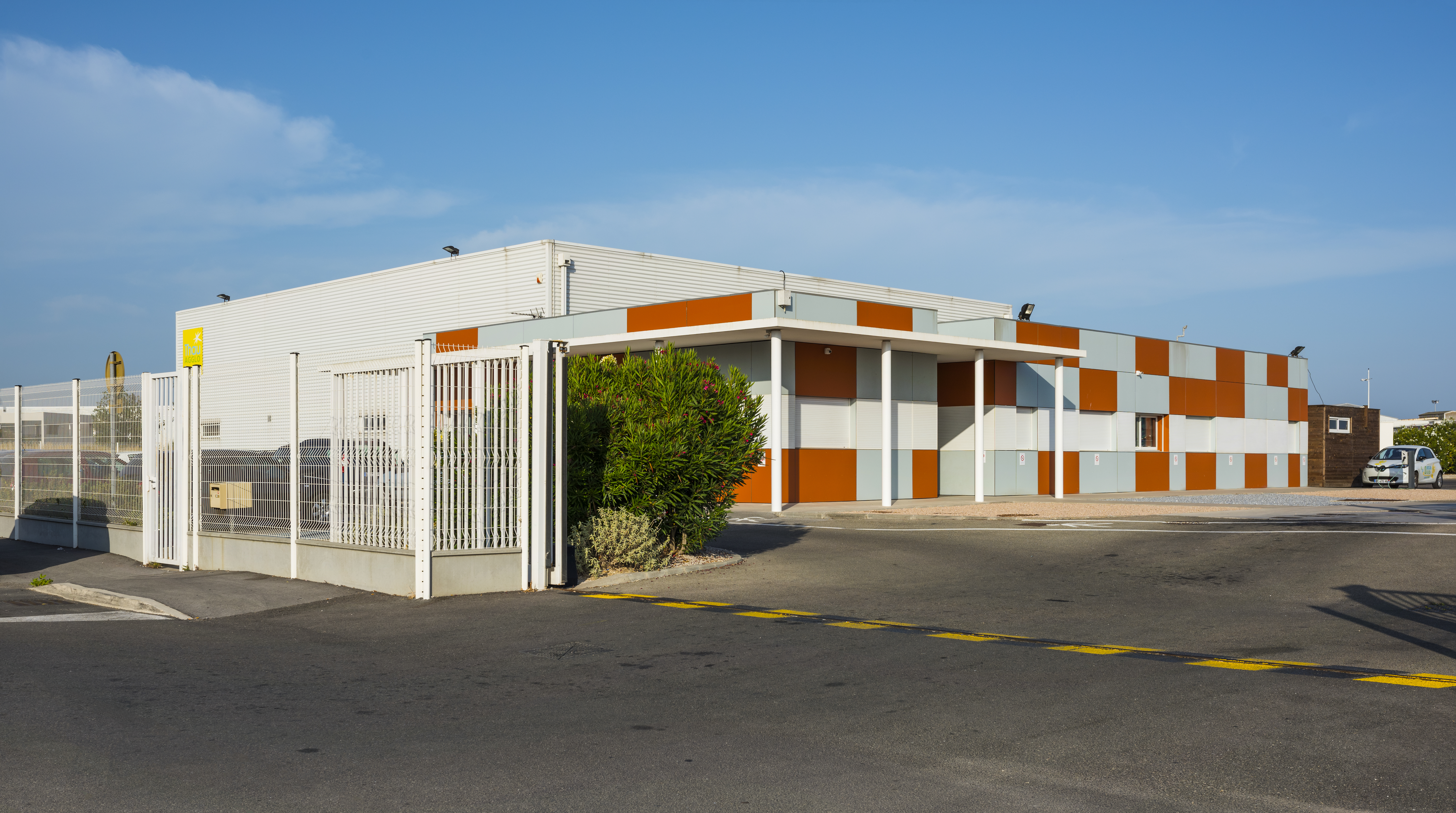 Thau Agglo Transport building, Sète, Hérault, France